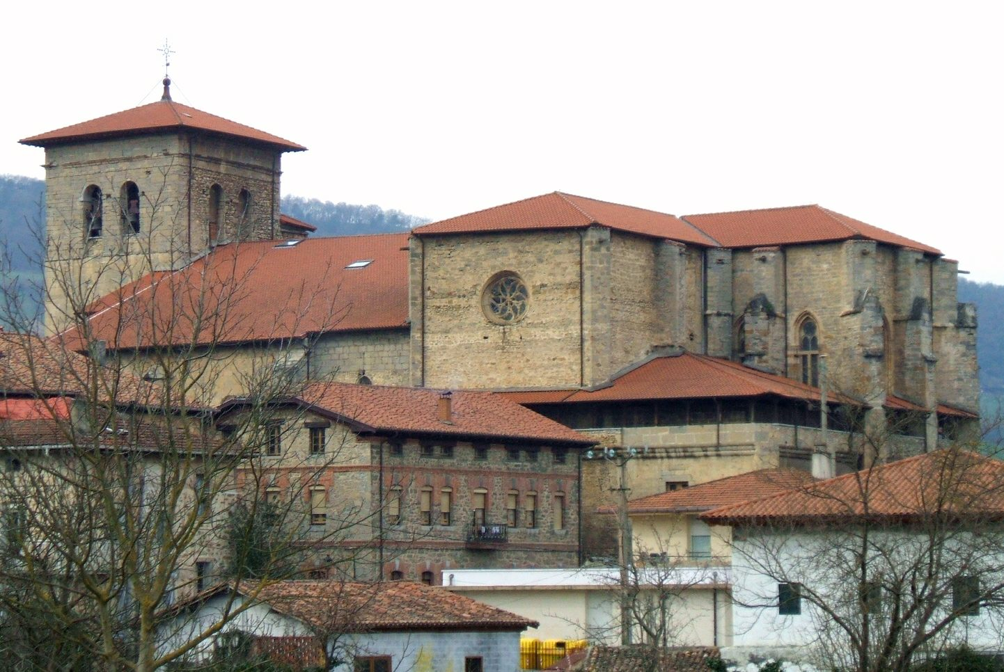 Iglesia de Nuestra Señora de la Asunción, Orduña (Vizcaya)